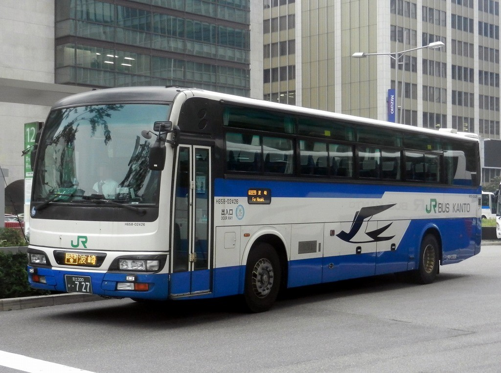 JR bus Kanto Nissan Diesel Space Arrow (KL-RA552RBN)highwaybus "Hasaki-gou"(Tokyo-Kamisu,Hasaki)